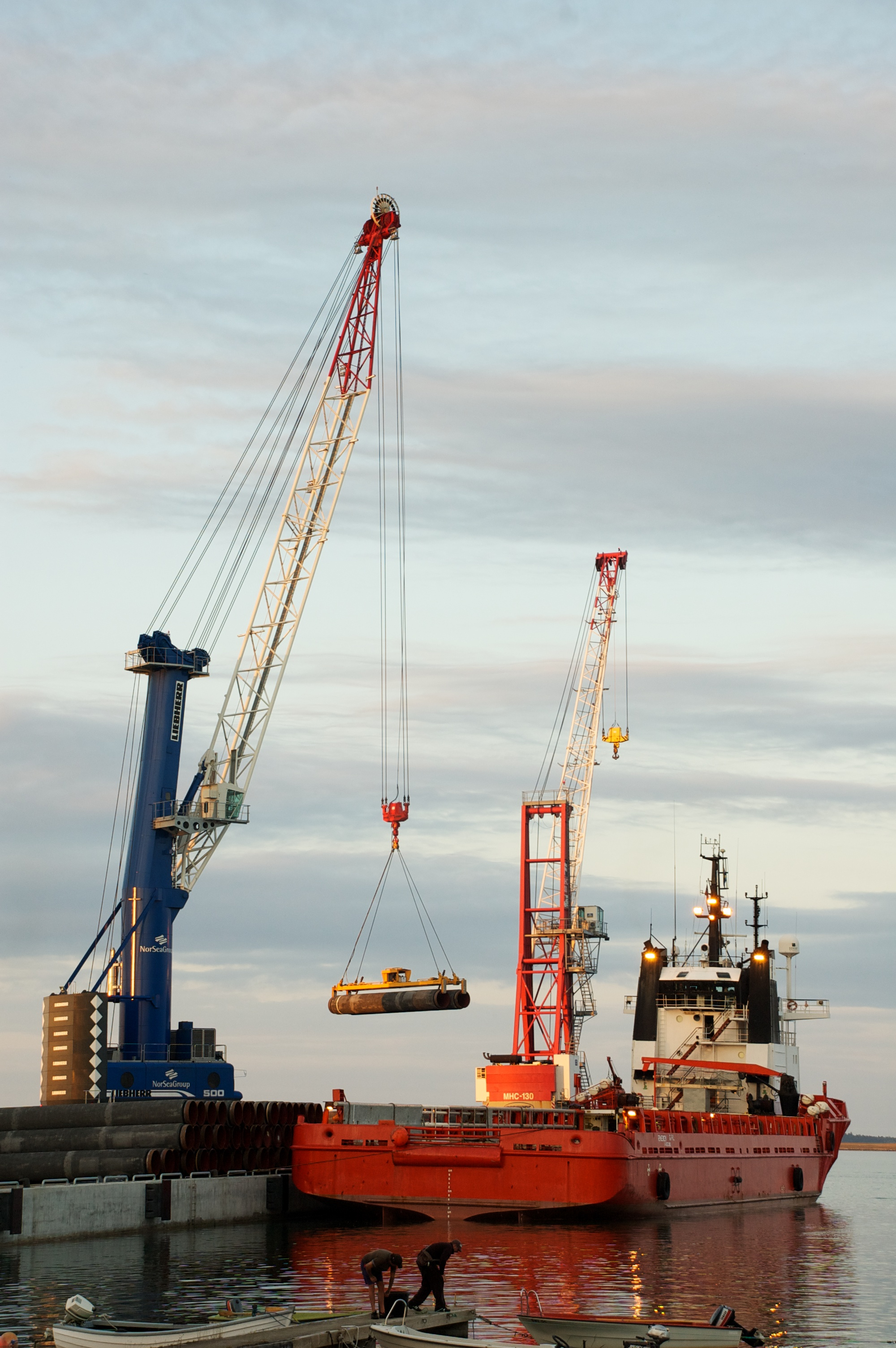 Shipping of pipeline segments for the Nord Stream in Slite (Gotland)